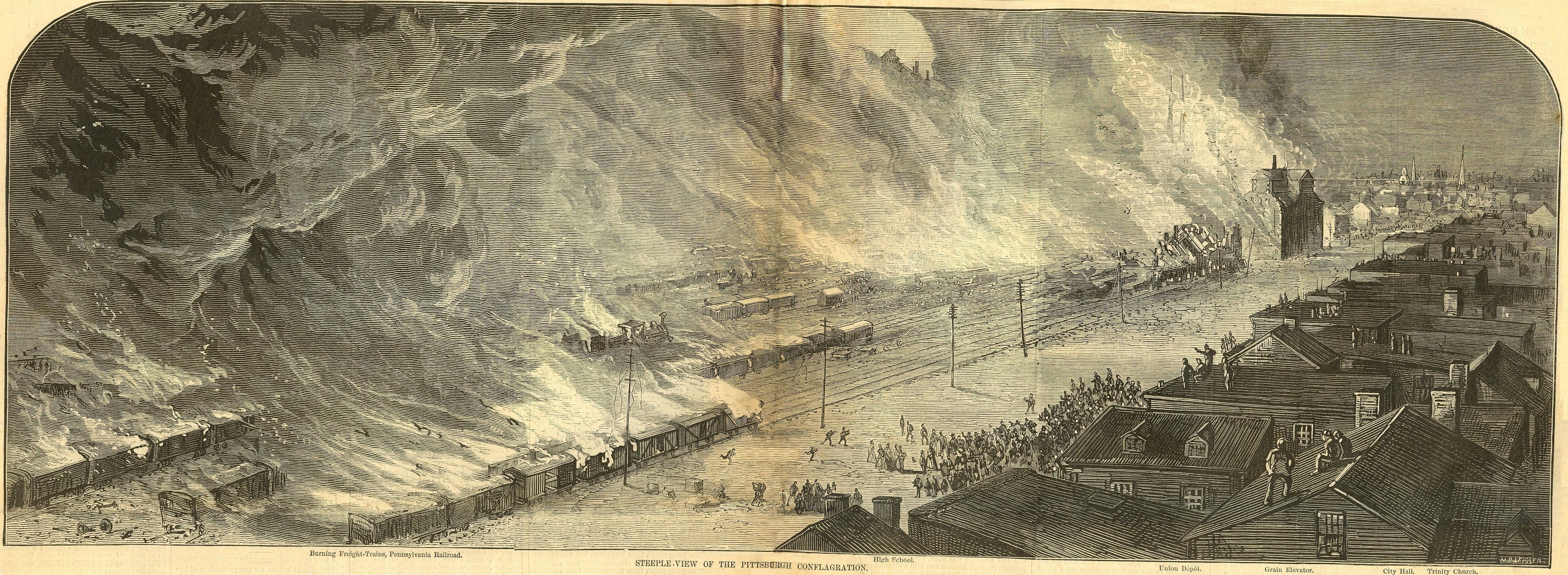 "A Steeple-View of the Pittsburgh Conflagration"; engraving showing the burning of Union Depot and Pennsylvania Railroad yards, Pittsburgh, PA during Great railroad strike of 1877